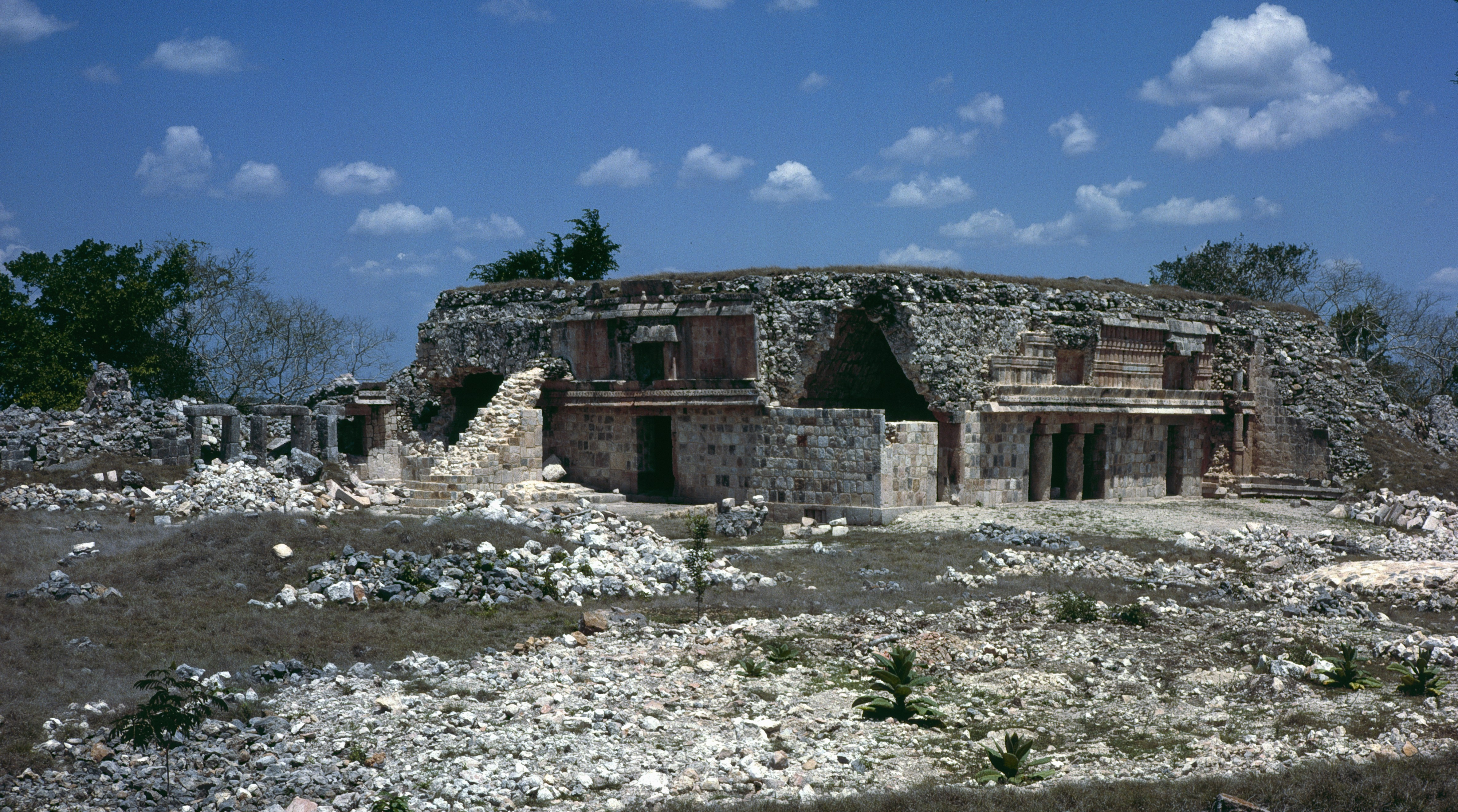 Chacmultun, Yucatan, Mexico: Main Group, building 1